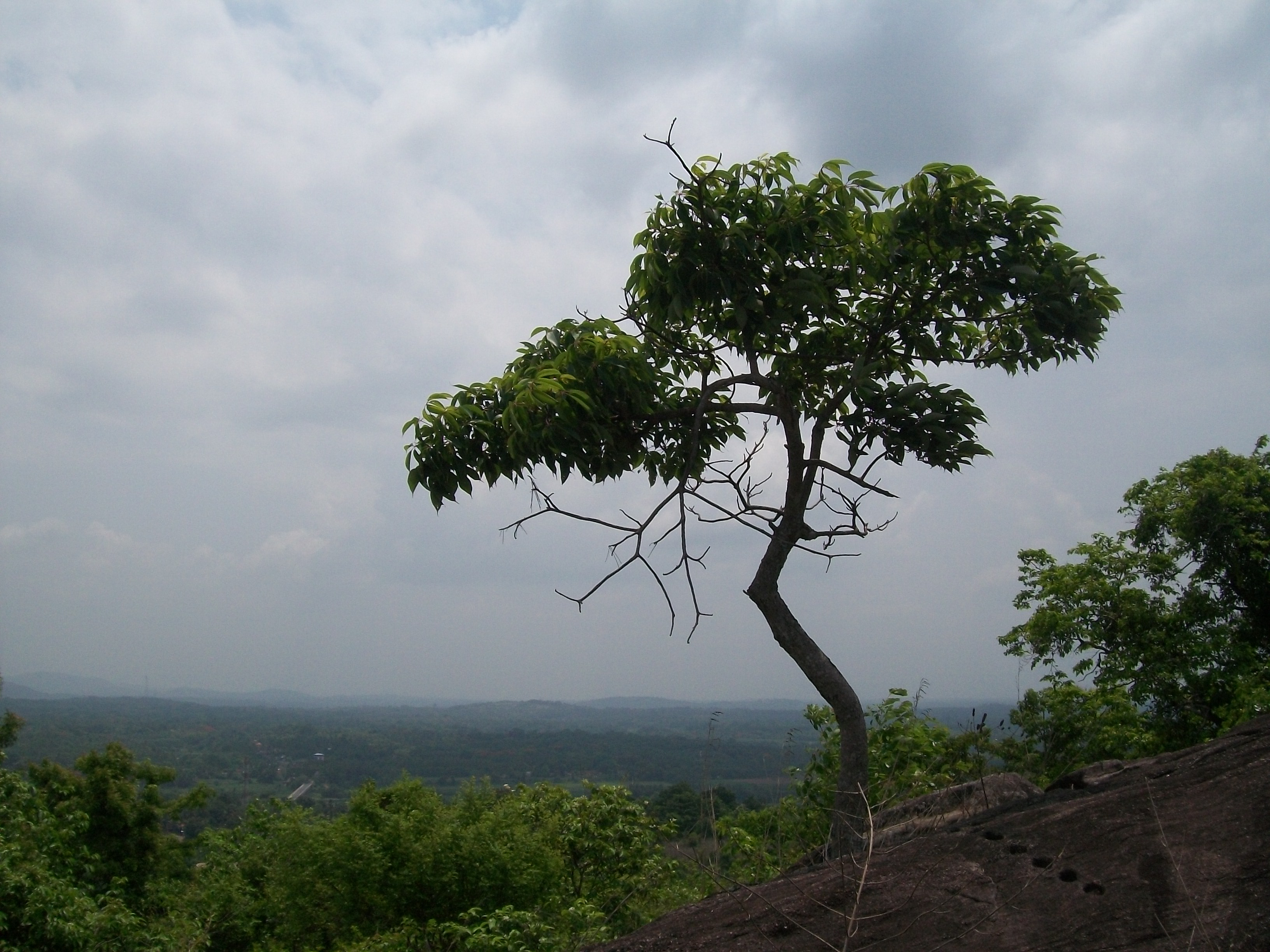 At Thiruvilwamala Punarjani Rocks